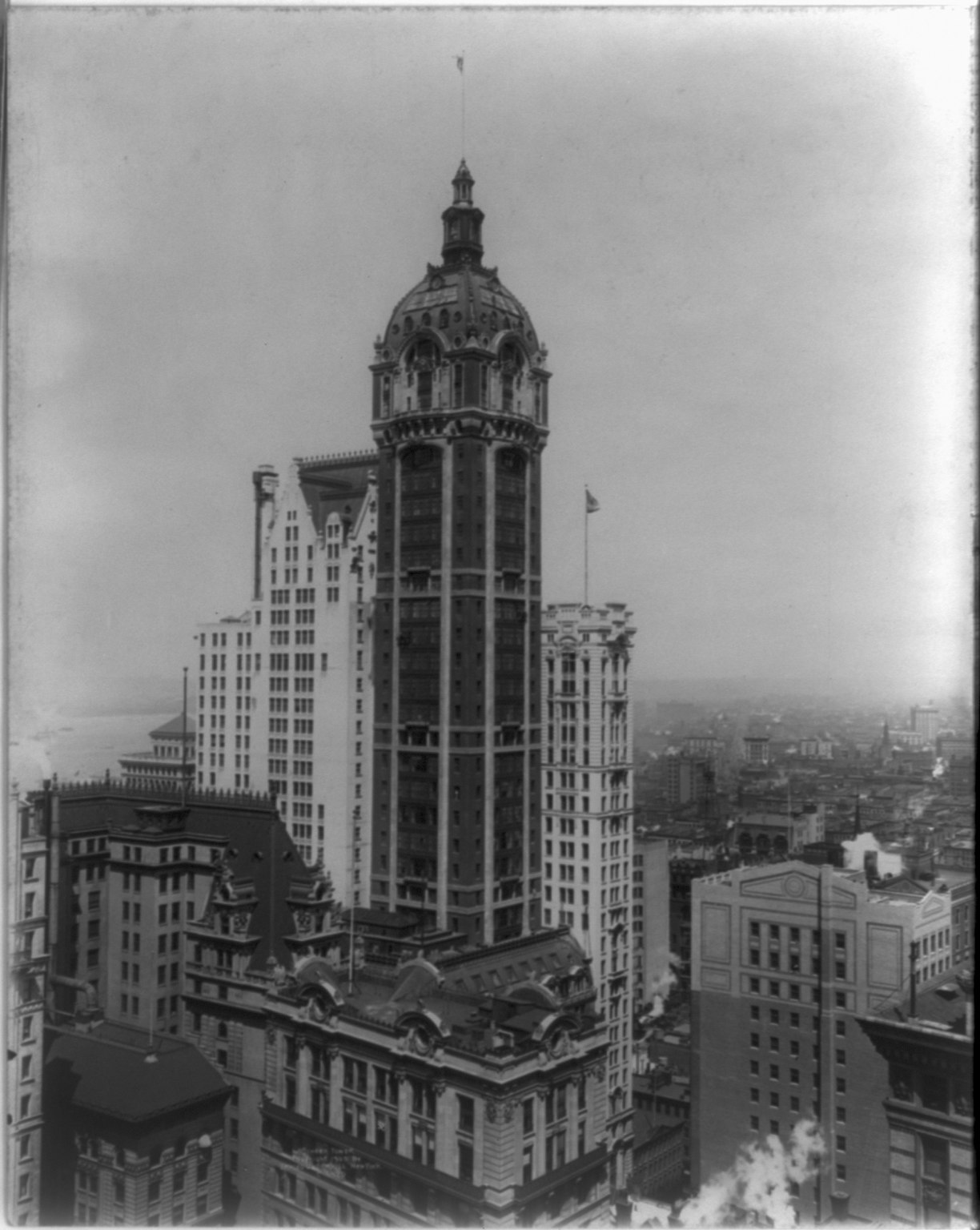 Title: Singer Tower, New York City Abstract/medium: 1 photographic print.